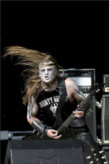 Patryk Dominik Sztyber aka Seth (guitar - session member for Behemoth band).